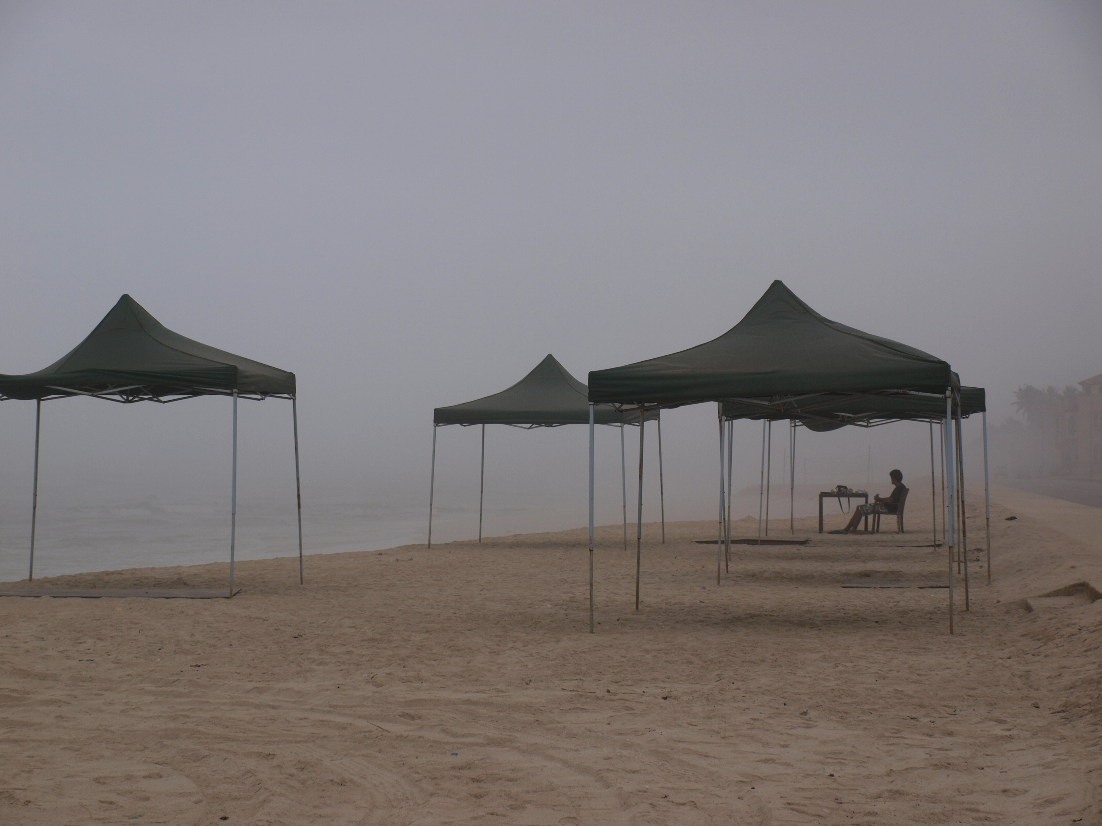 Salalah, Dhofar.